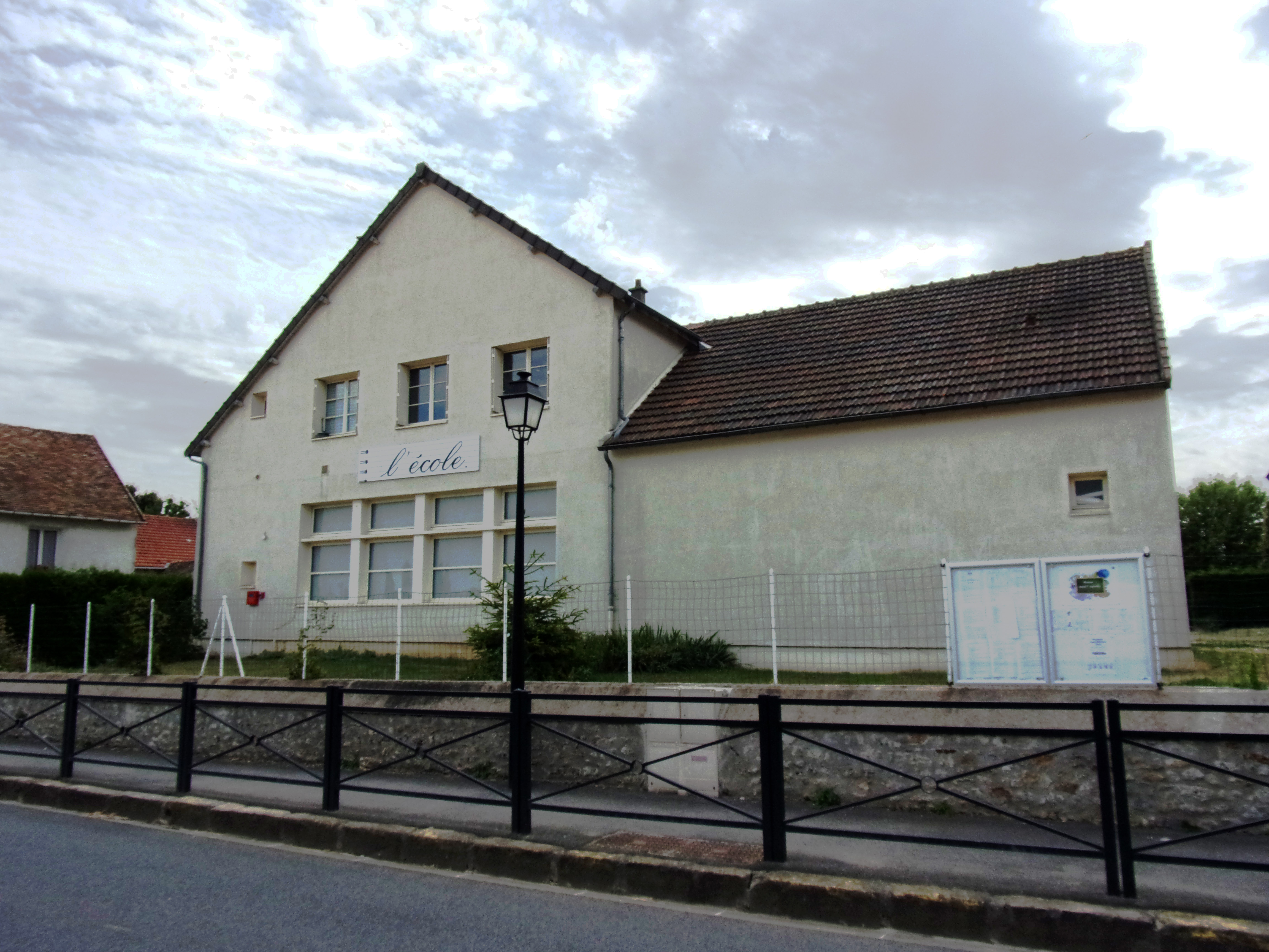 école communale